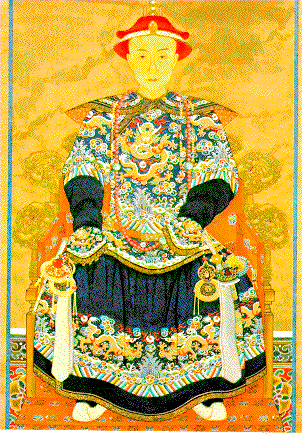 Prince Bao(Later Qianlong Emperor)